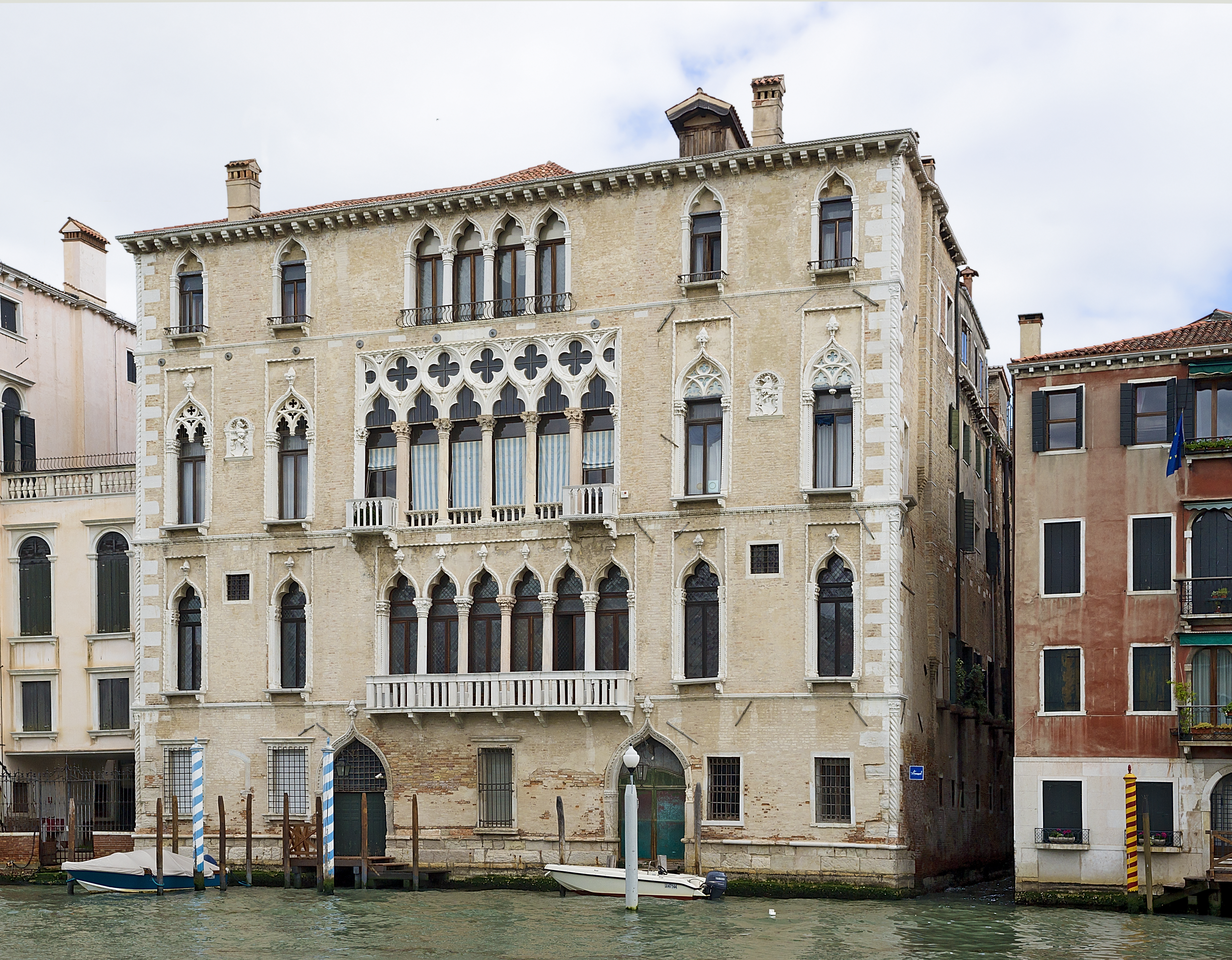 Palazzo Bernardo Venice. Façade on Grand Canal.